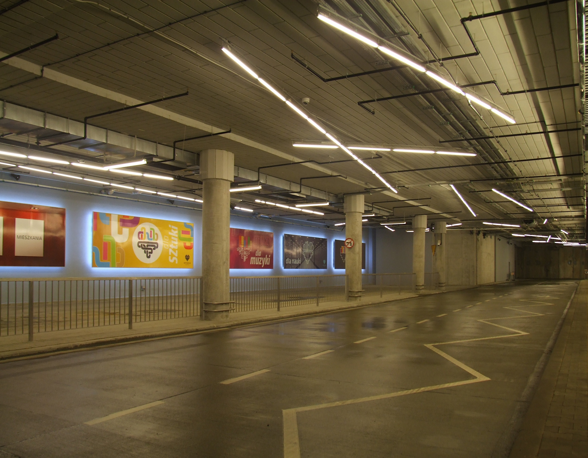 Central Bus Station in Katowice (Katowicy, Kattowitz), Upper Silesia, Silesian Voivodeship, Poland Ślůnski: Gůwno autobusowo stacyjo we sztadźe Katowicy, Gůrny Ślůnsk